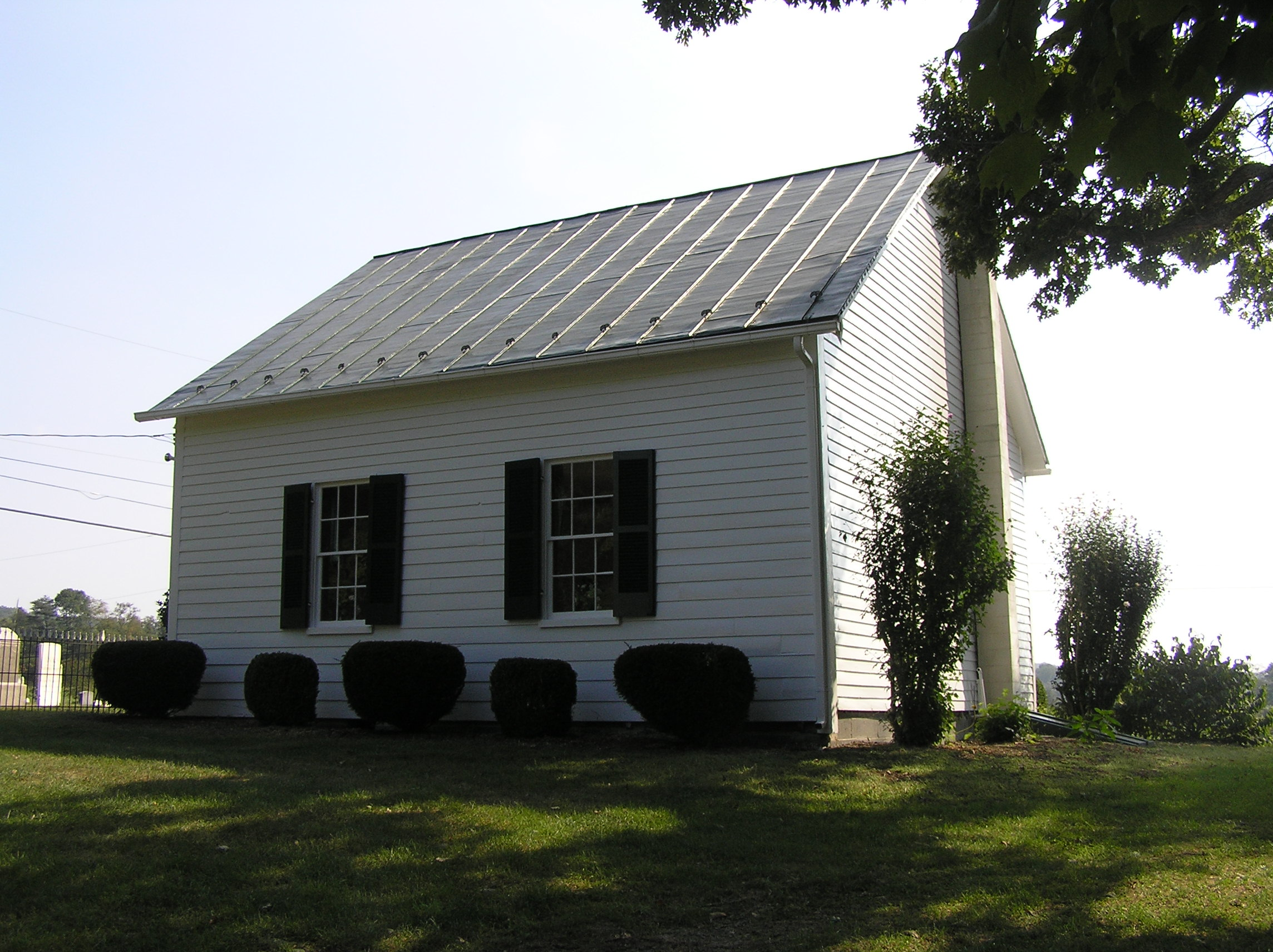 Capon Chapel (c. 1756) and Cemetery on Christian Church Road (County Route 13) near Capon Bridge, West Virginia, United States.